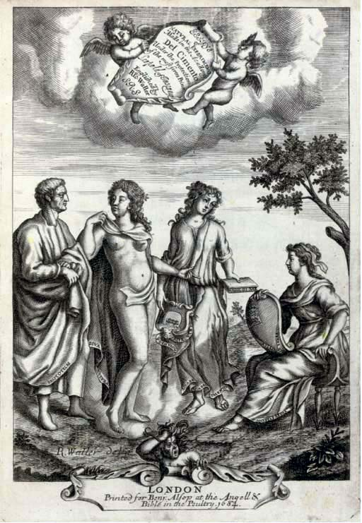 Essayes of Natural Experiments. frontispiece